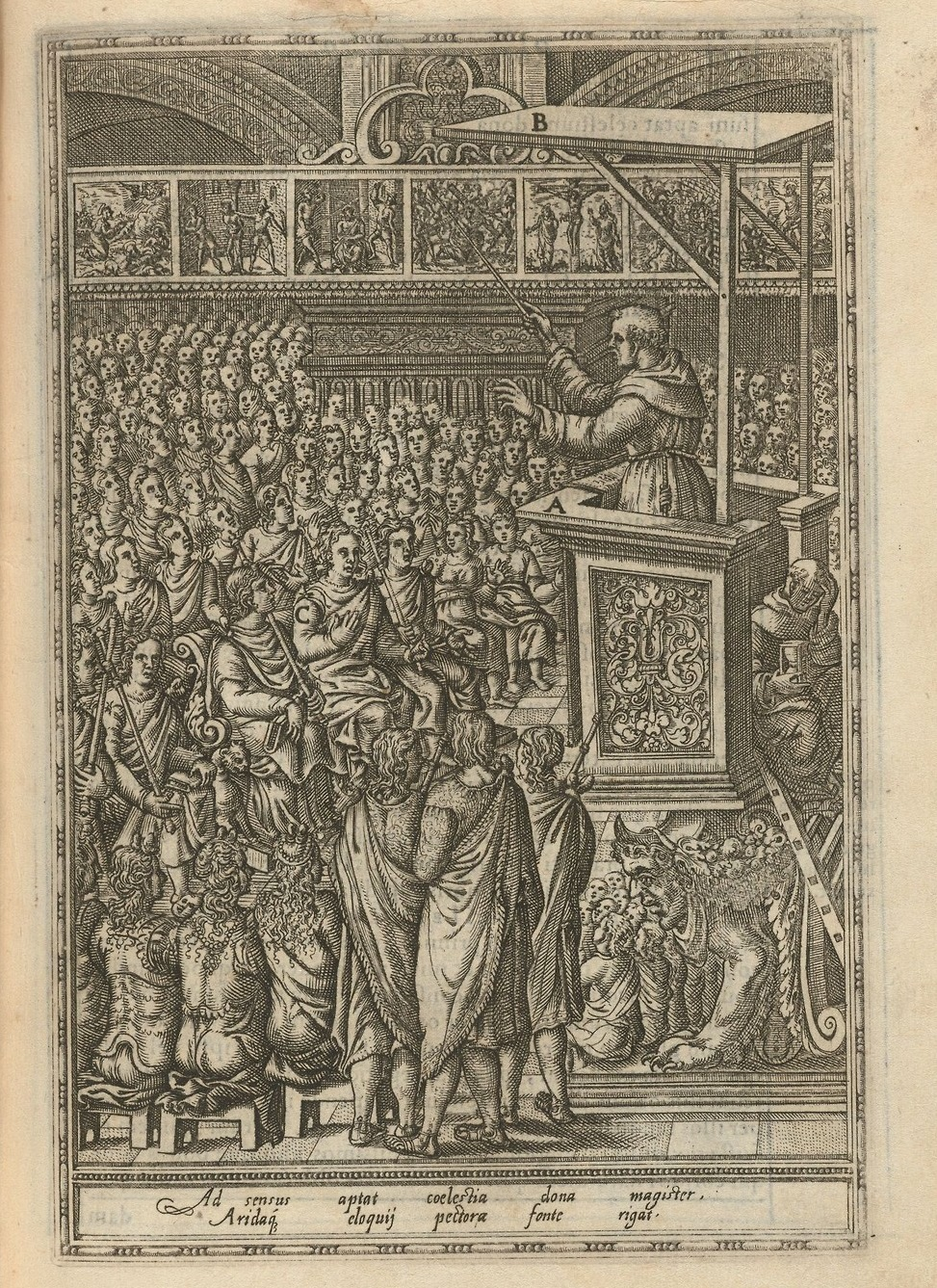 Illustration from Rhetorica christiana ad concionandi et orandi vsvm accommodata, 1579, by Diego Valadés. Typ 525.79.865, Houghton Library, Harvard University